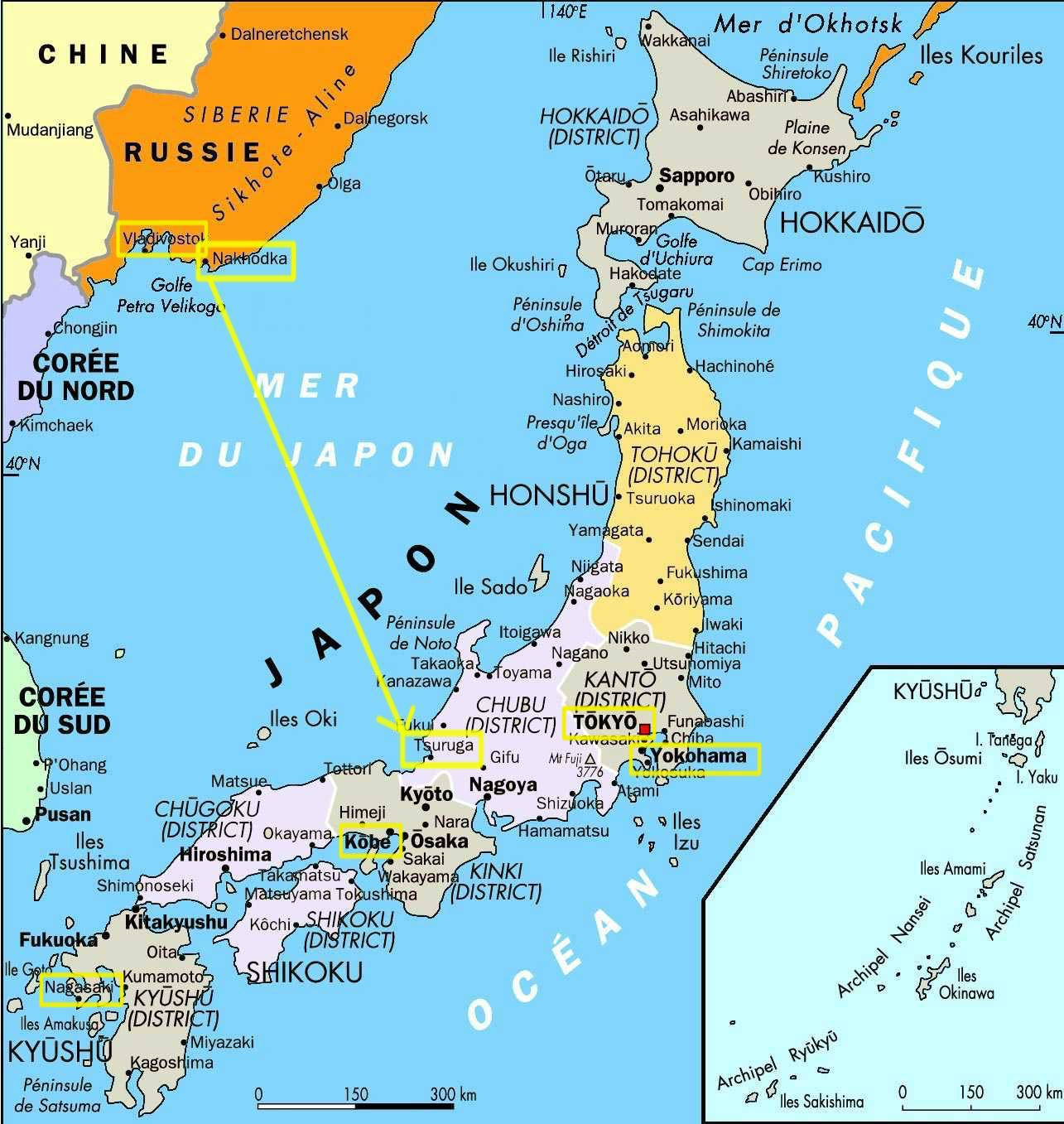 Jews in Japan